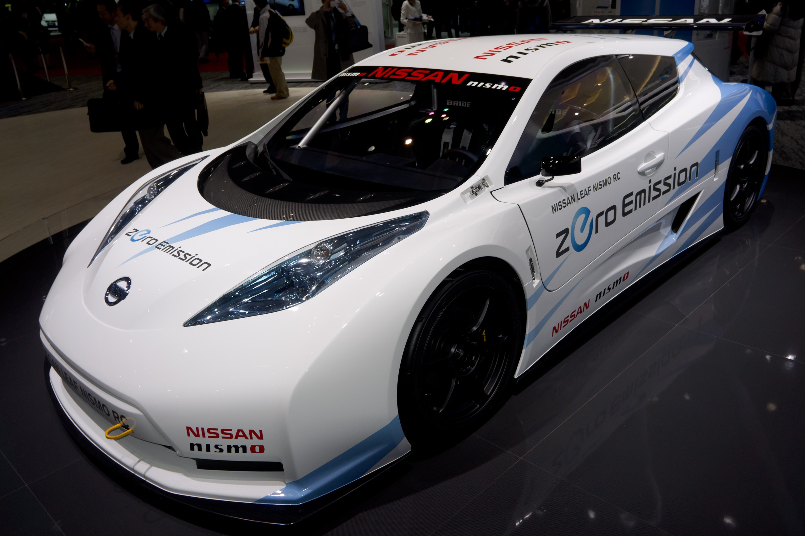 Tokyo Motor Show 2011: Nissan Leaf Nismo RC